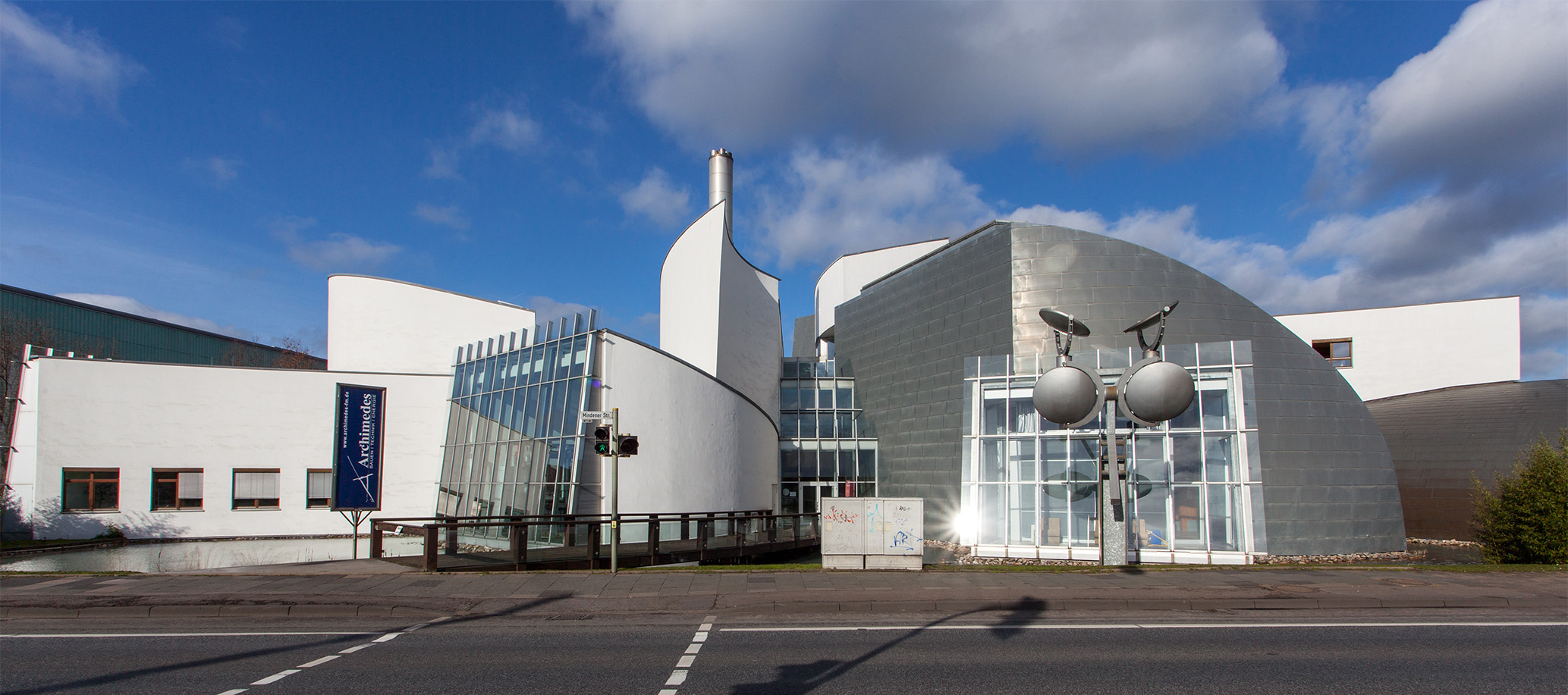 Energie-Forum-Innovation in Bad Oeynhausen. Architect: Frank O. Gehry